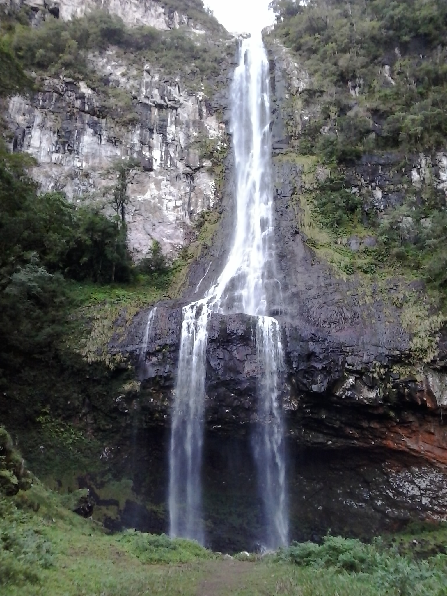 Pedra's Brancas waterfall in Três Forquilhas-RS